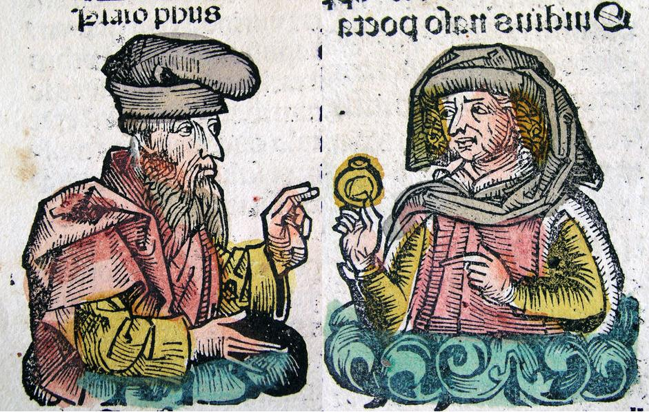 Publius Ovidius Naso and Plato in the Nuremberg Chronicle, also known as the Liber Chronicarum The Morse Library of the Benoit College has a very strict license for the use of images from the book [1]. Despite this, it could well be argued that images from this book is in the public domain since it was published before 1922.